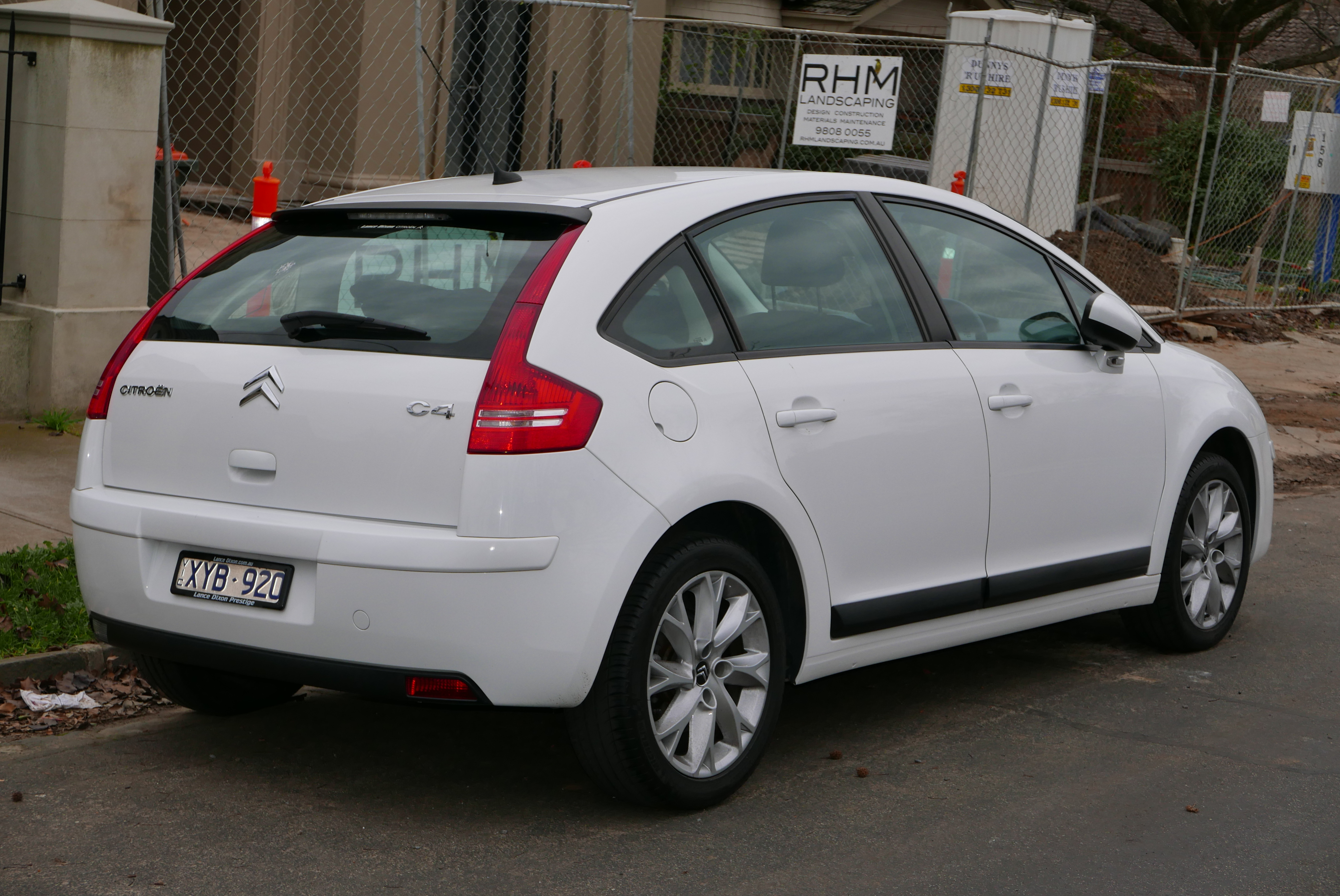 2010 Citroën C4 (MY09) Exclusive hatchback. Photographed in Kew, Victoria, Australia. Vehicle registration enquiry results Jurisdiction Victoria Registration XYB920 Chassis code VF7LC5FTFAY546518 Engine code 10FJBC0866269 Compliance date 2010-10 Year of manufacture 2010